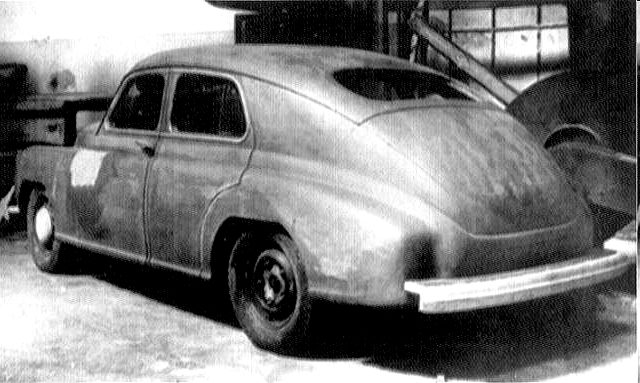 An early mockup for the Pobeda GAZ-M-20.